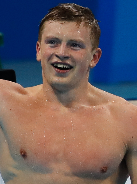 Peaty after winning the 100m Breaststroke Final